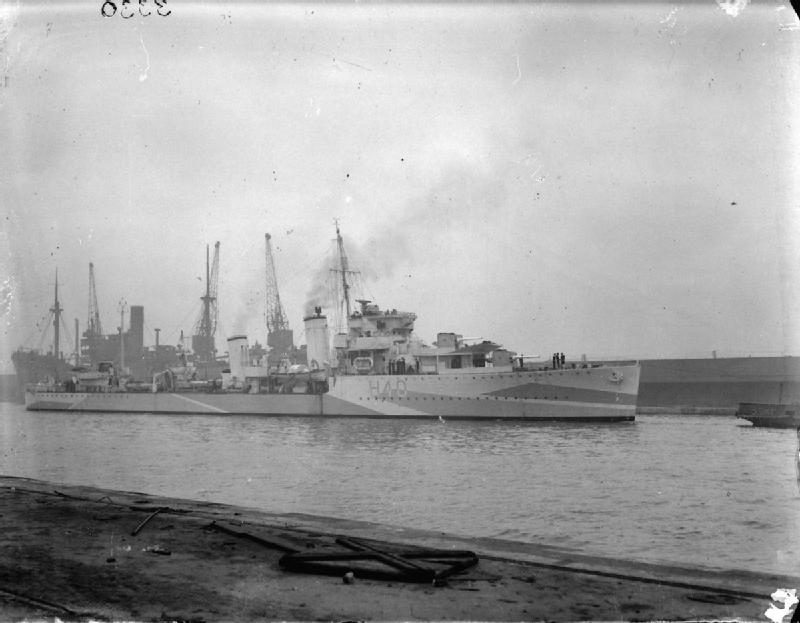 British destroyer HMS Anthony Underway, in harbour. Pennant No H40.